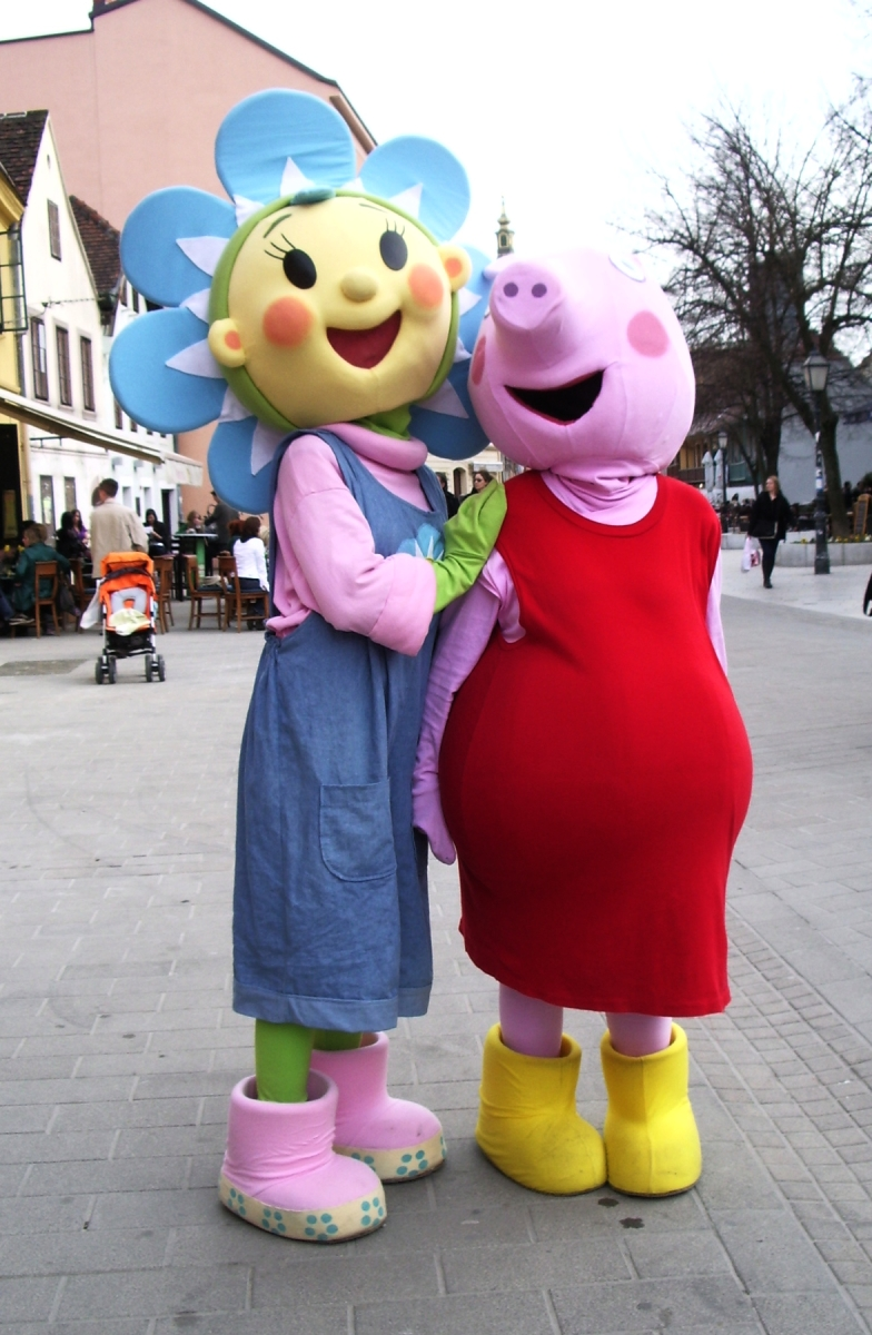 Fifi (Fifi and the Flowertots) and Peppa (Peppa Pig), Tkalčićeva street, Zagreb, Croatia.